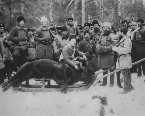 West Caucasus; Kubanskaj ohota, the Grand duke Sergei Mikhailovich and Aleksandr Mikhailovich, grandchildren of Russian emperor Nikolay I. have hunted down bisons.